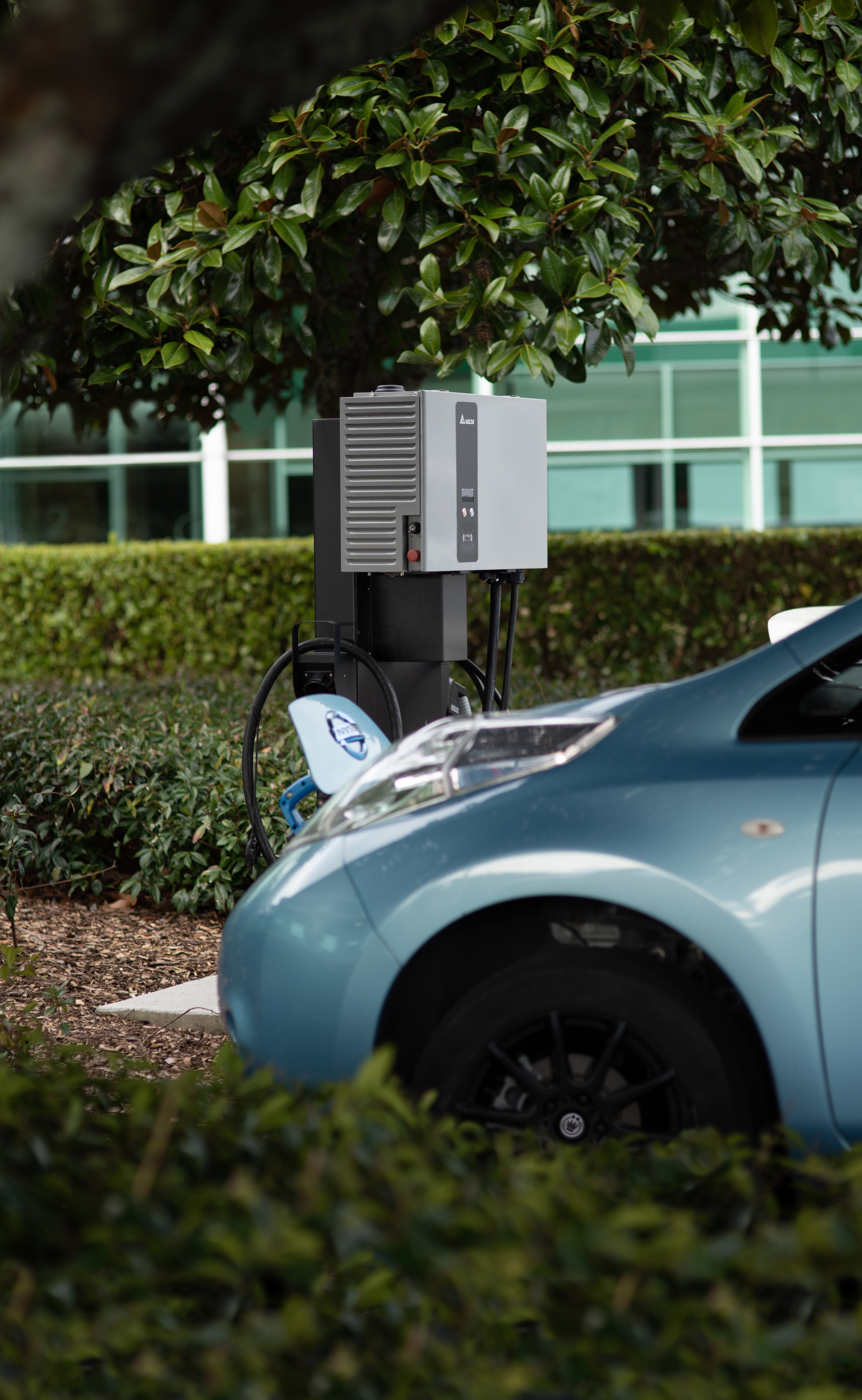 Delta's DC EV Quick Charger installed in New Zealand.